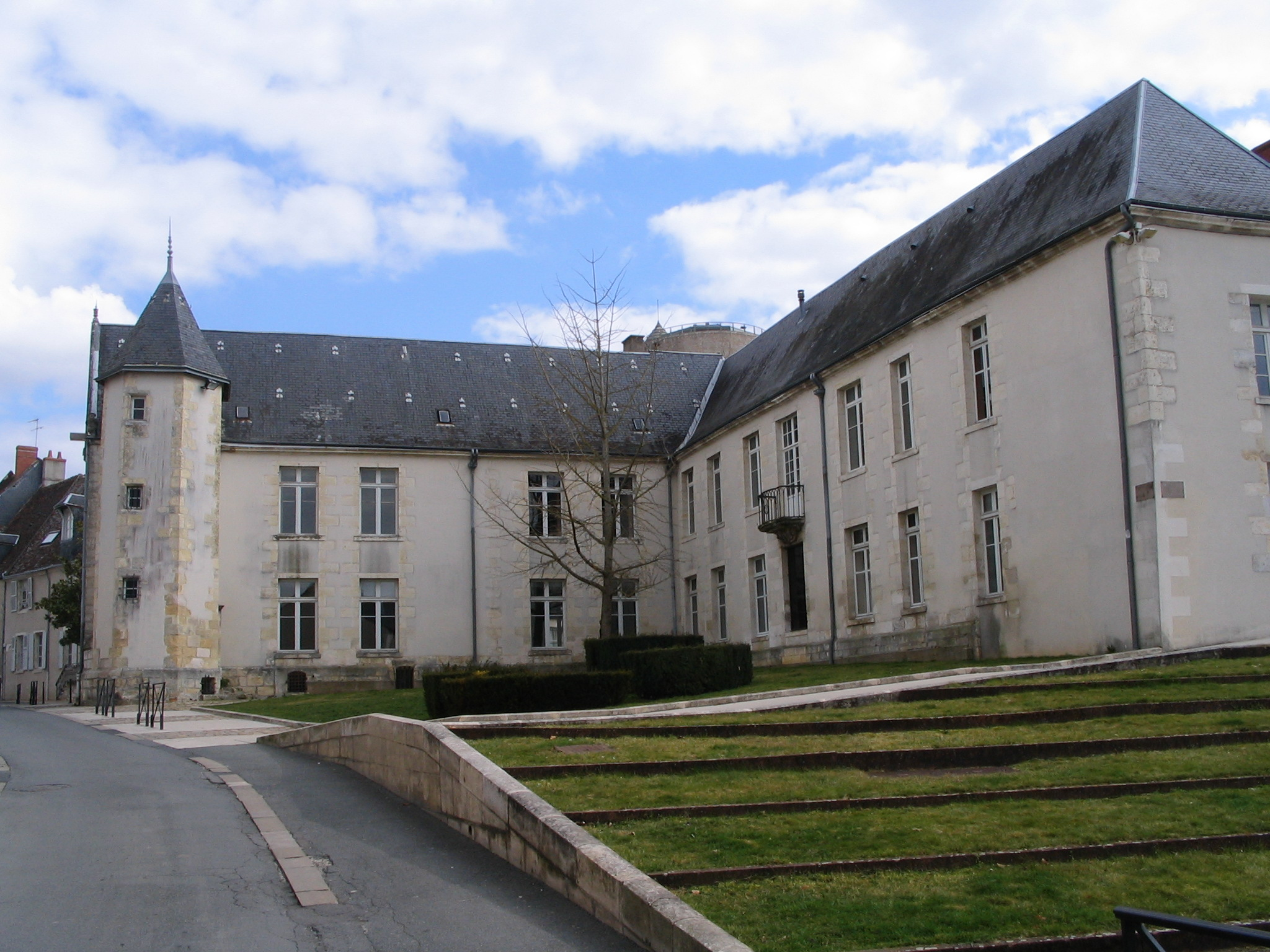 The town hall of Issoudun, Indre, France.